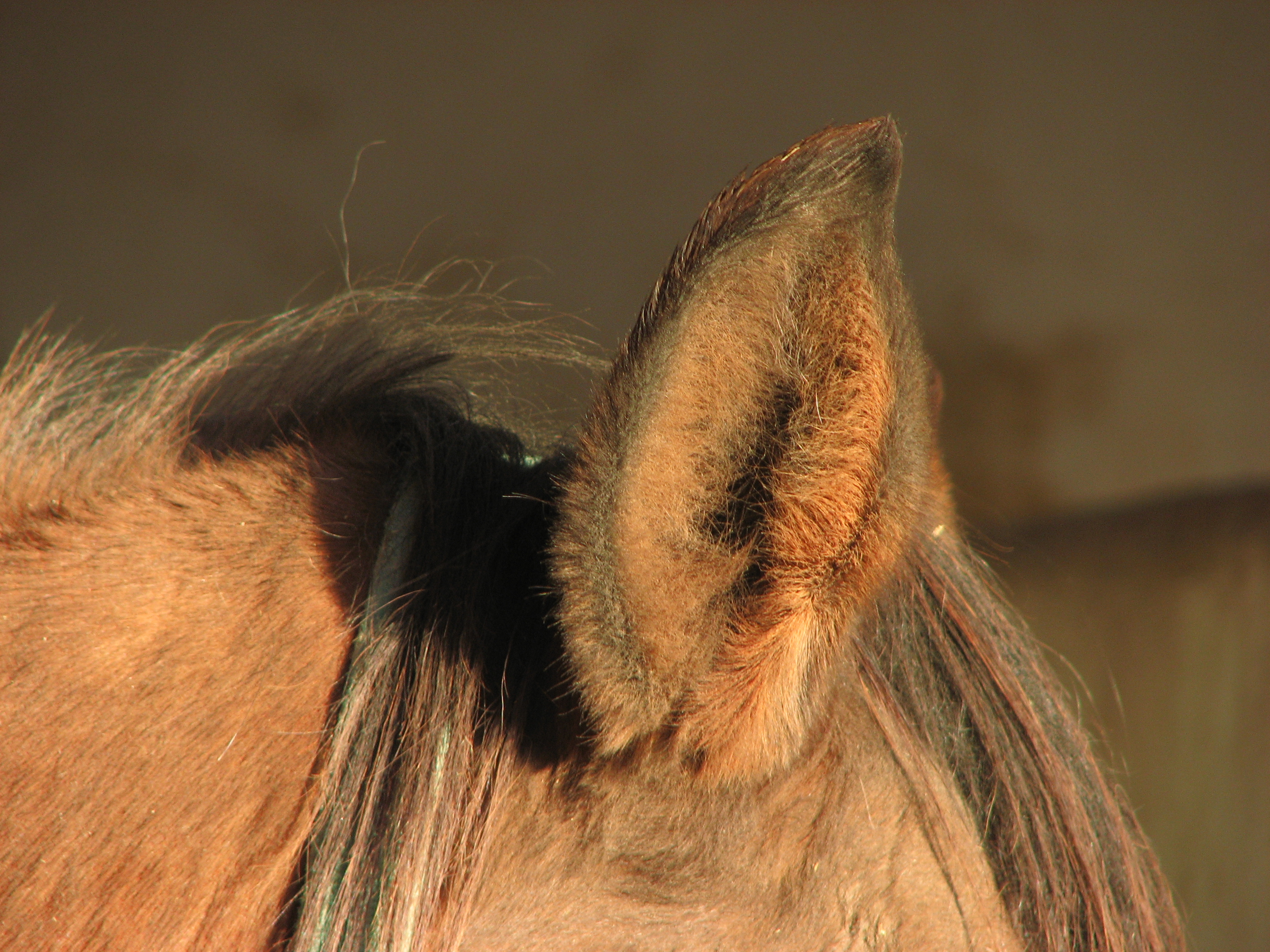 Close-up of a horse's ear.